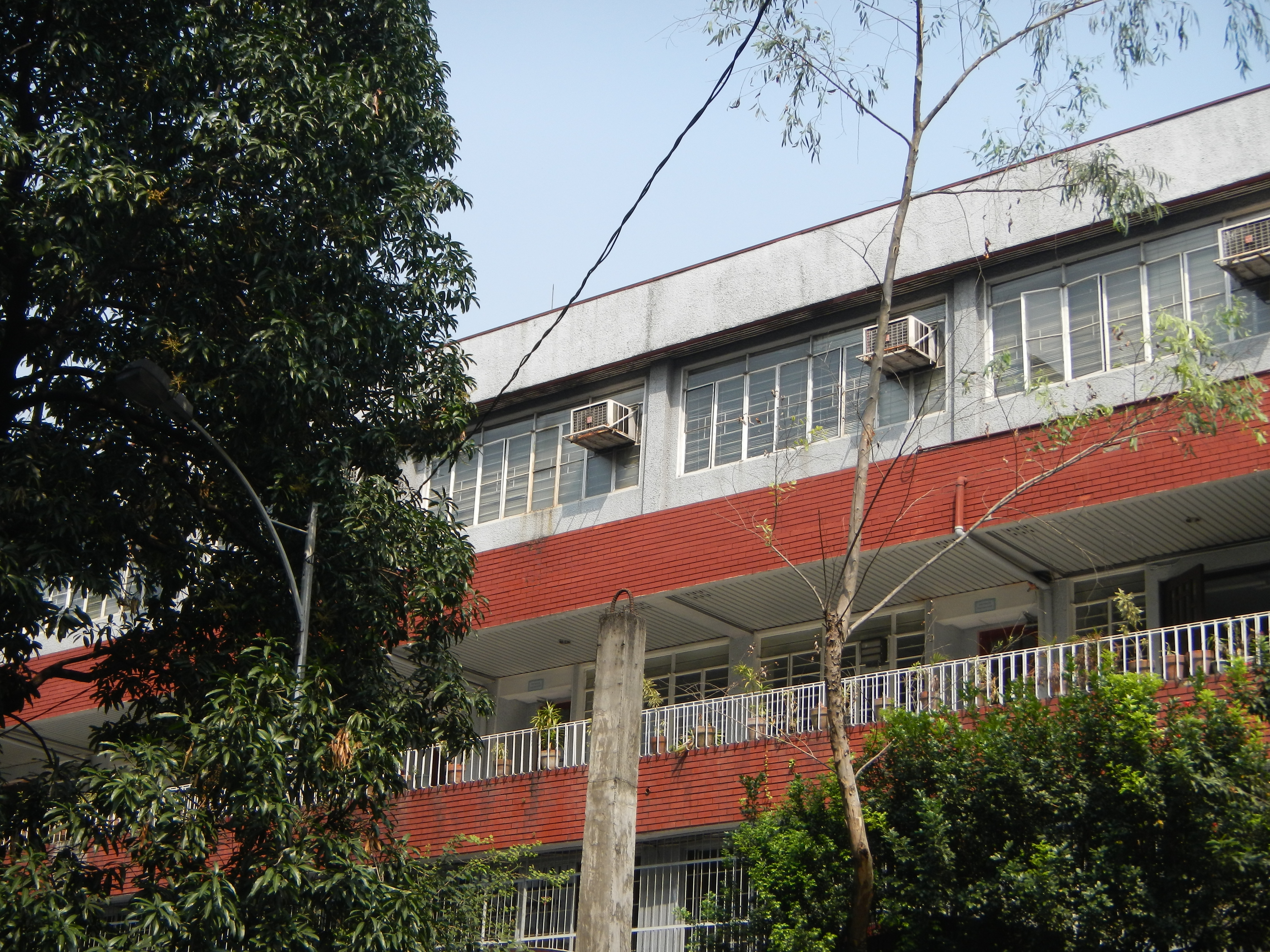 Upload Wizard photos of - St. Paul University Quezon City [1] Aurora Boulevard [2] cor. Gilmore Avenue, Quezon City[ New Manila, Quezon City, Philippines.